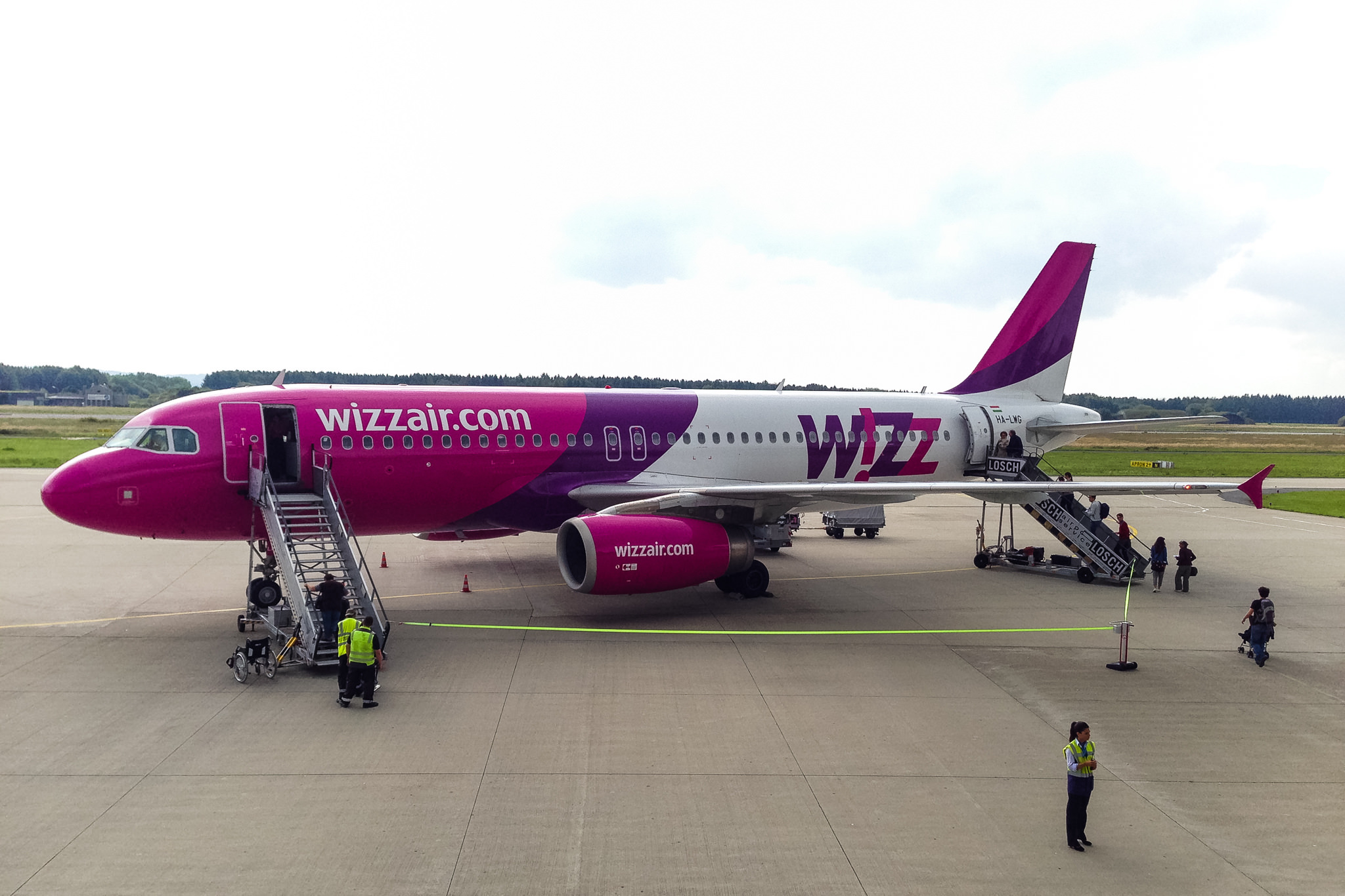 An Wizzair Airbus at the Airport Memmingen in Germany